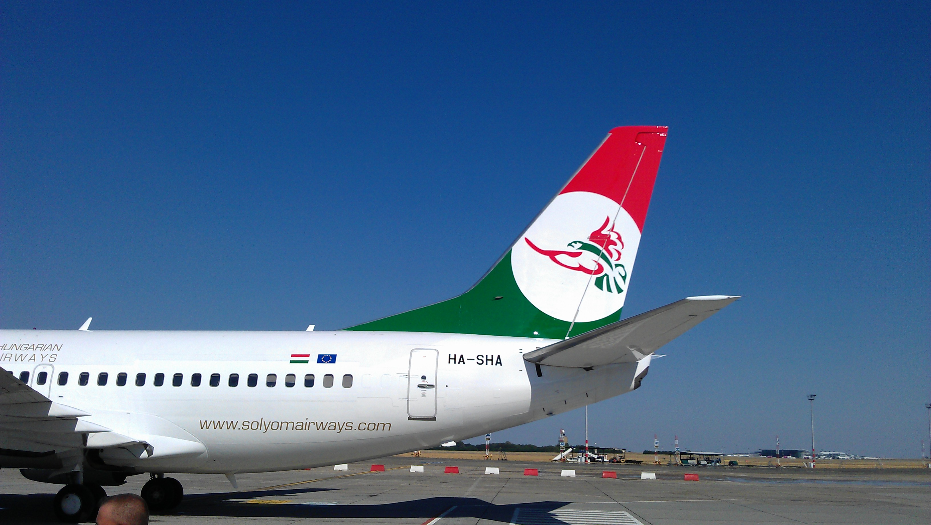 Sólyom Hungarian Airways' first leased Boeing 737-500 aircraft, shortly after the first touchdown at Budapest Airport.